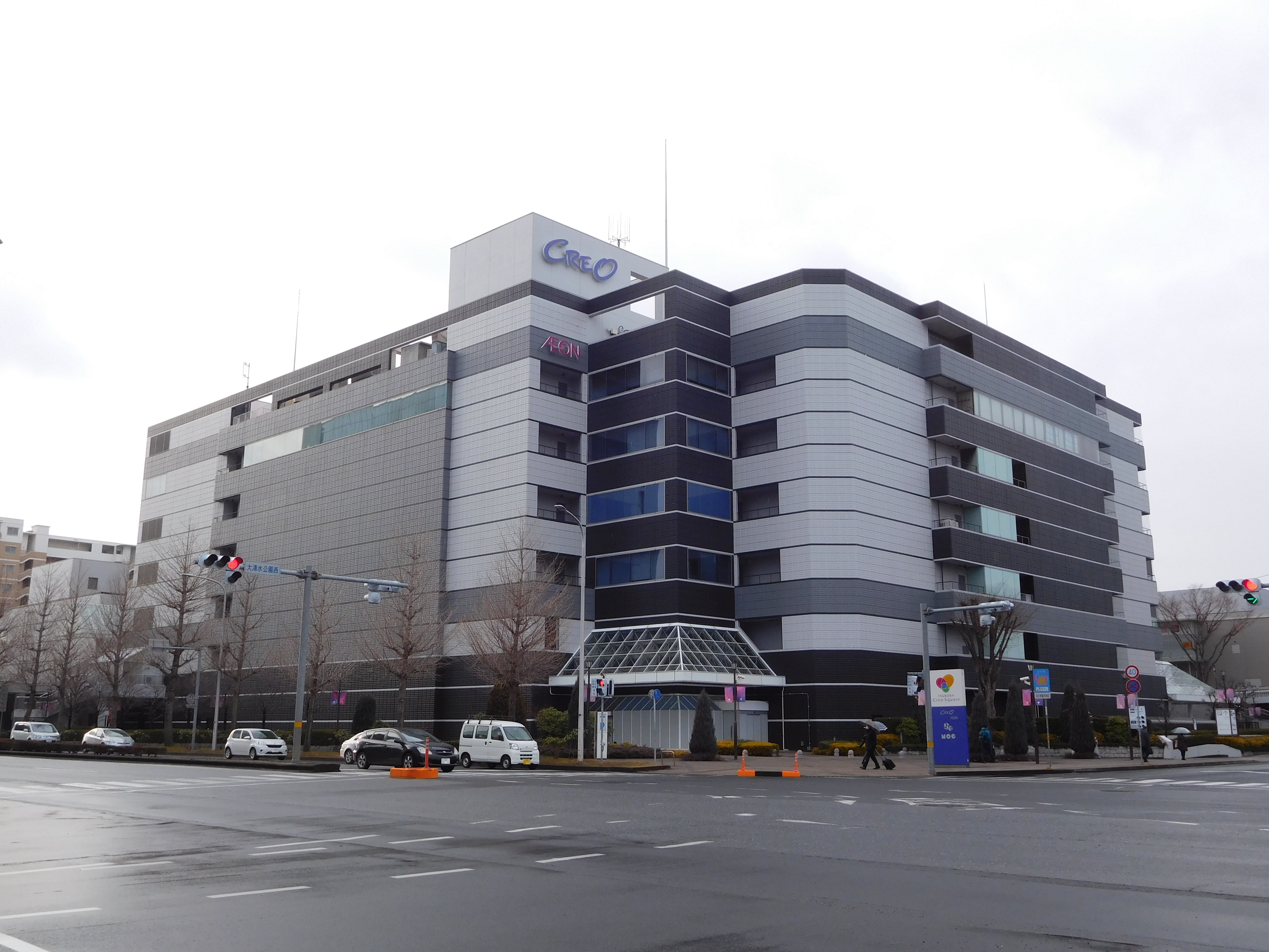 This is Tsukuba CREO Square, a station-side shopping center in Tsukuba, Ibaraki, Japan.